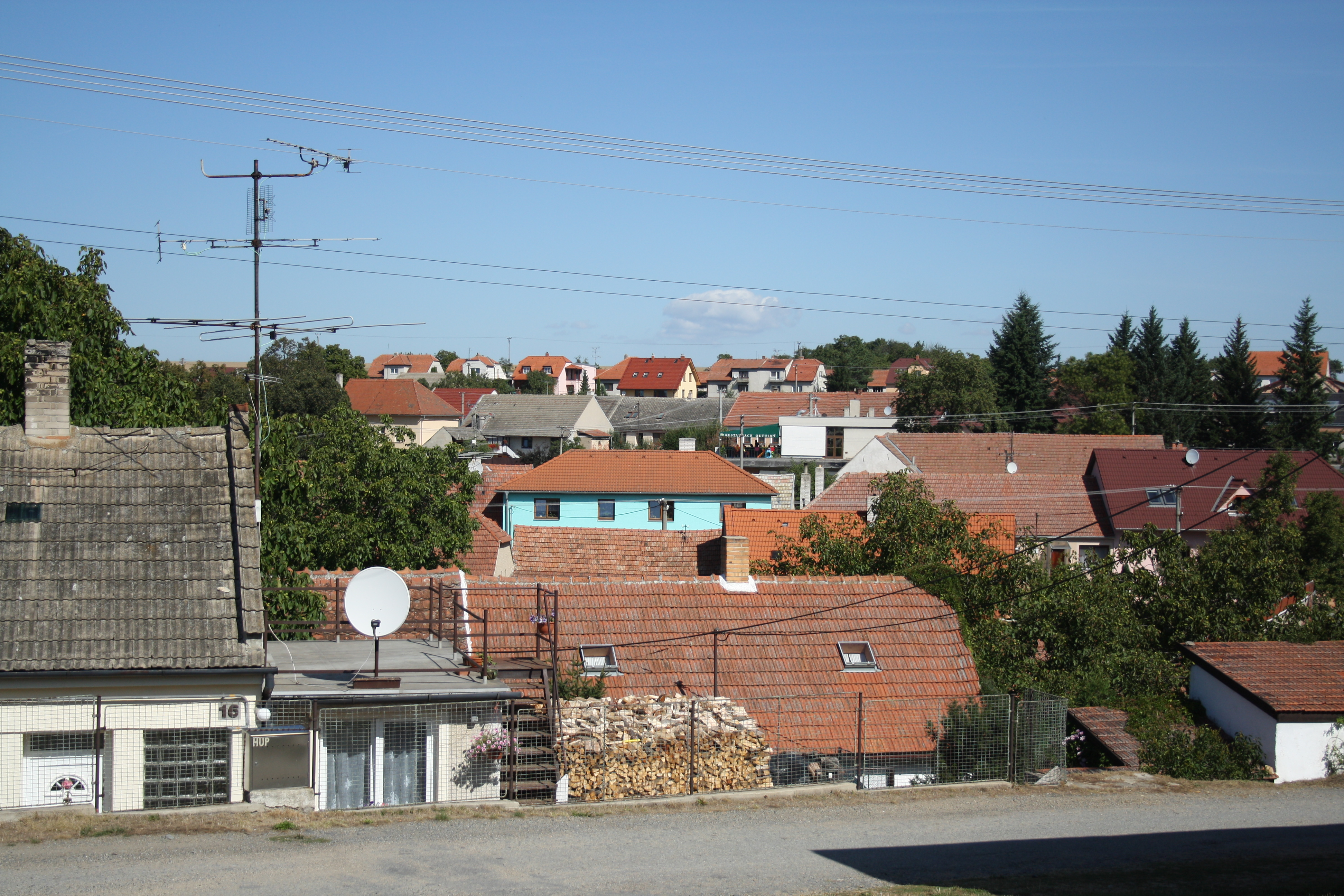 Hartvíkovice village center.